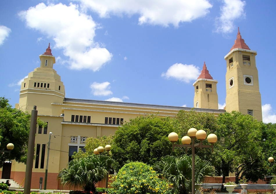 Marc LEFEVRE - 2004